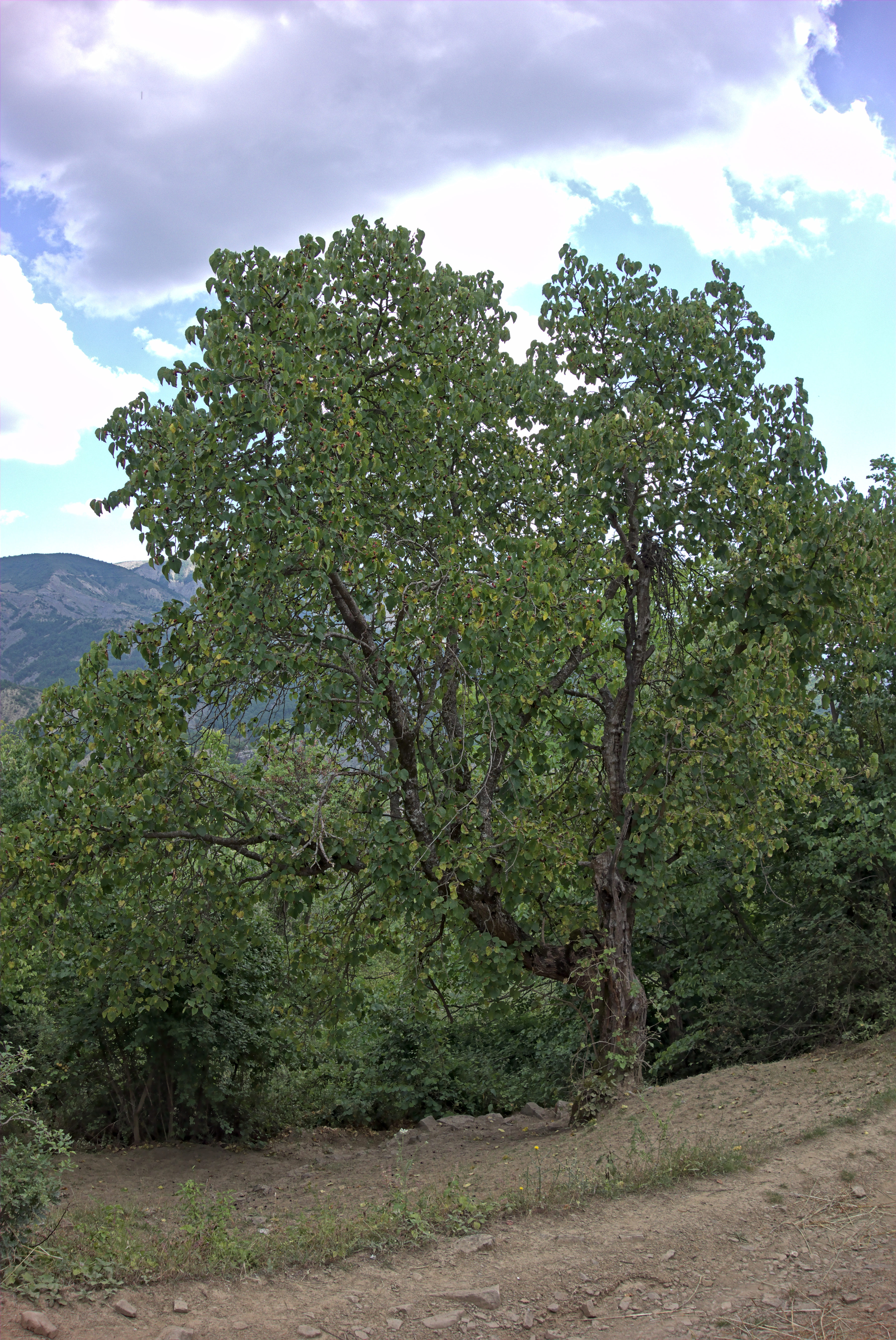 Mulberry tree (Morus nigra) at the wayside near Gostivisht (source name: dscRX009435_Maulbeerbaum_am_Wegrand_small.jpg)